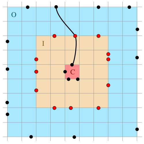 For each cell C, a set of access nodes (red dots) can be found by looking at an inner area I of 5x5 cells and an outer area O of 9x9 cells around C. Focusing on crossing nodes (ends of edges that cross the boundary of C, I or O (black dots), the access nodes for C are those nodes of I that are part of a shortest path (black path) from some node in C to a node in O.